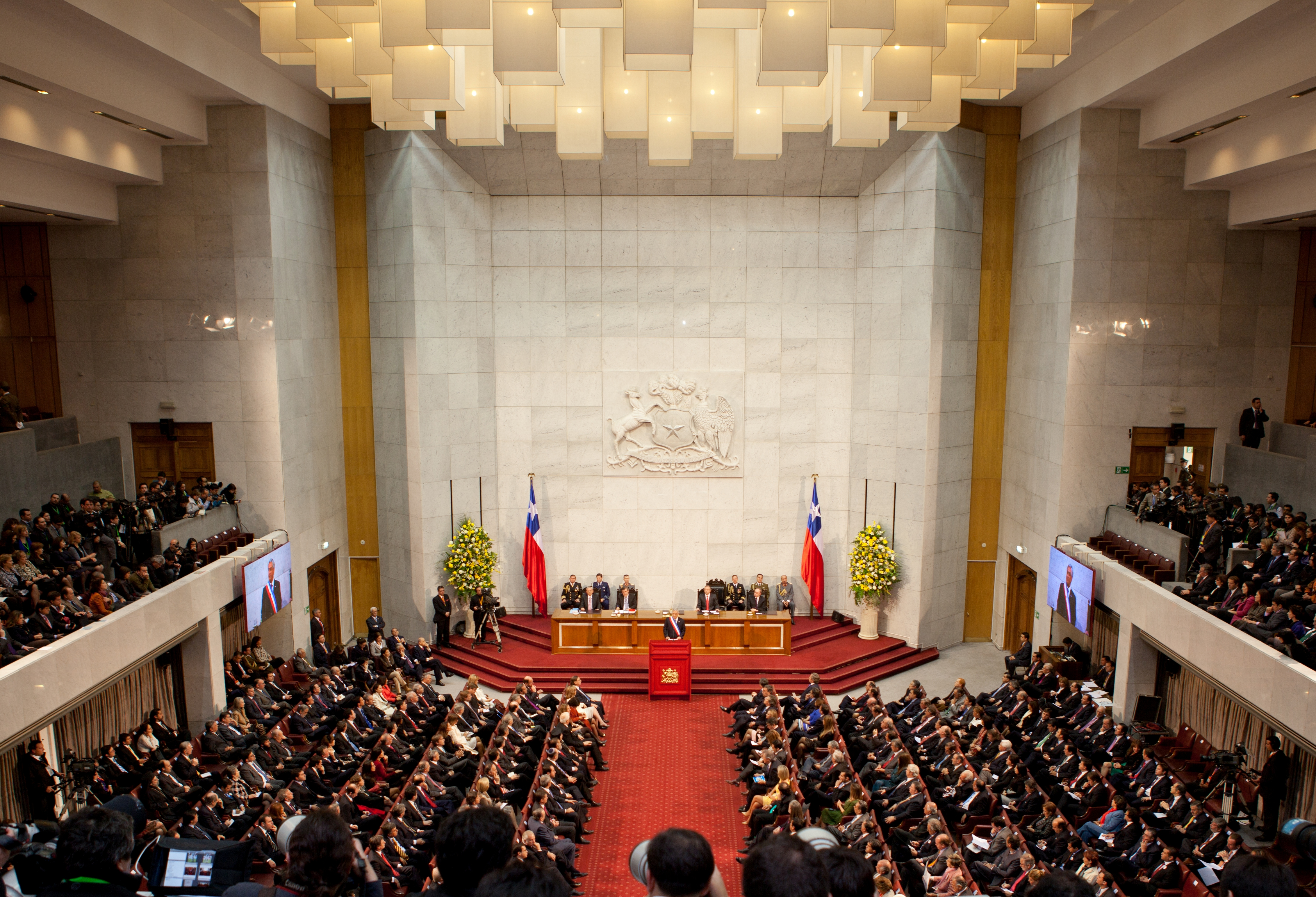 Photographic collection of the Library of the National Congress of Chile.